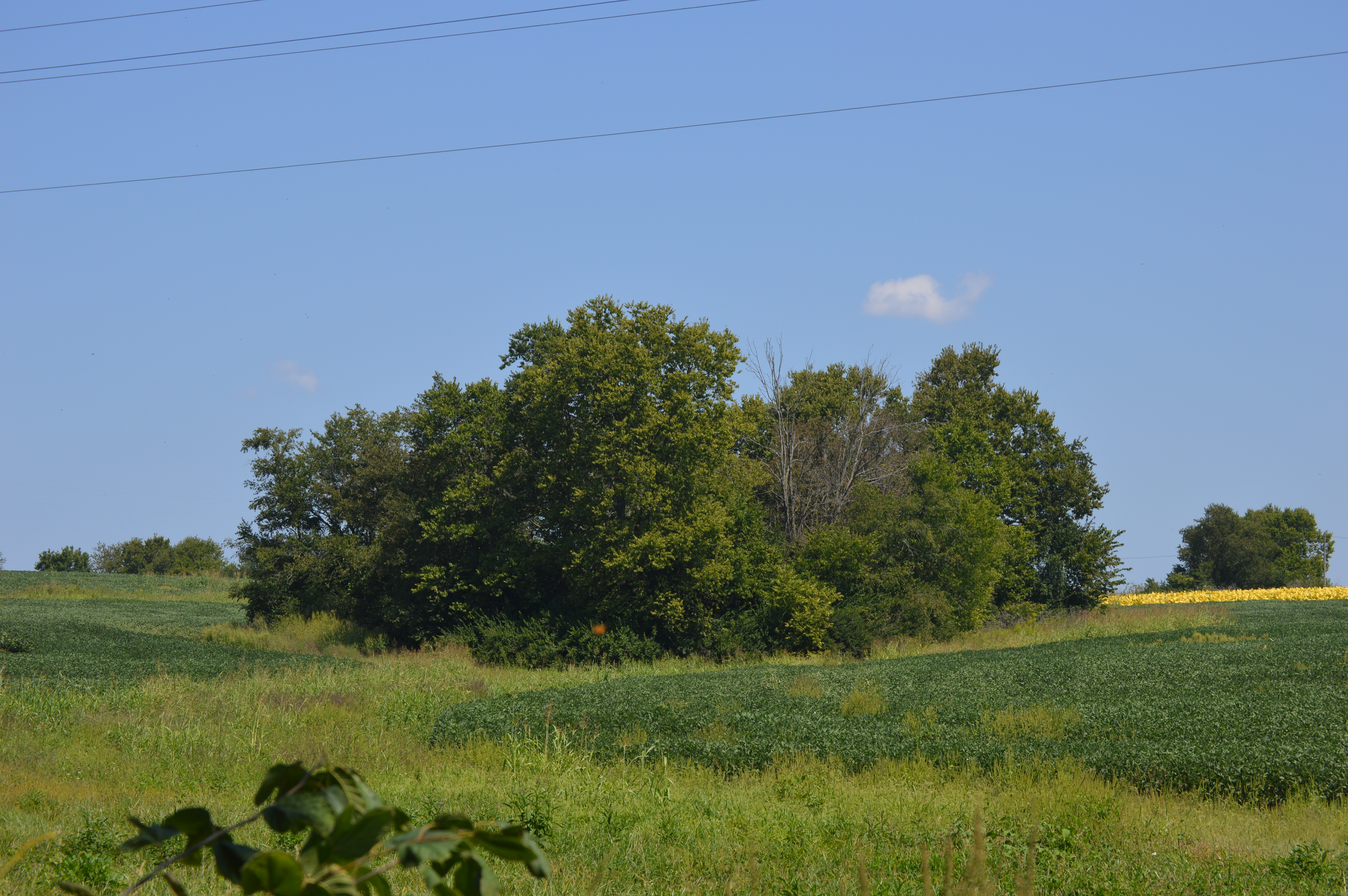 Western side of the Mound Hill Archeological Site, located off the eastern side of Pretty Run Road north of Winchester in Clark County, Kentucky, United States. Built in 1818, it is listed on the National Register of Historic Places.